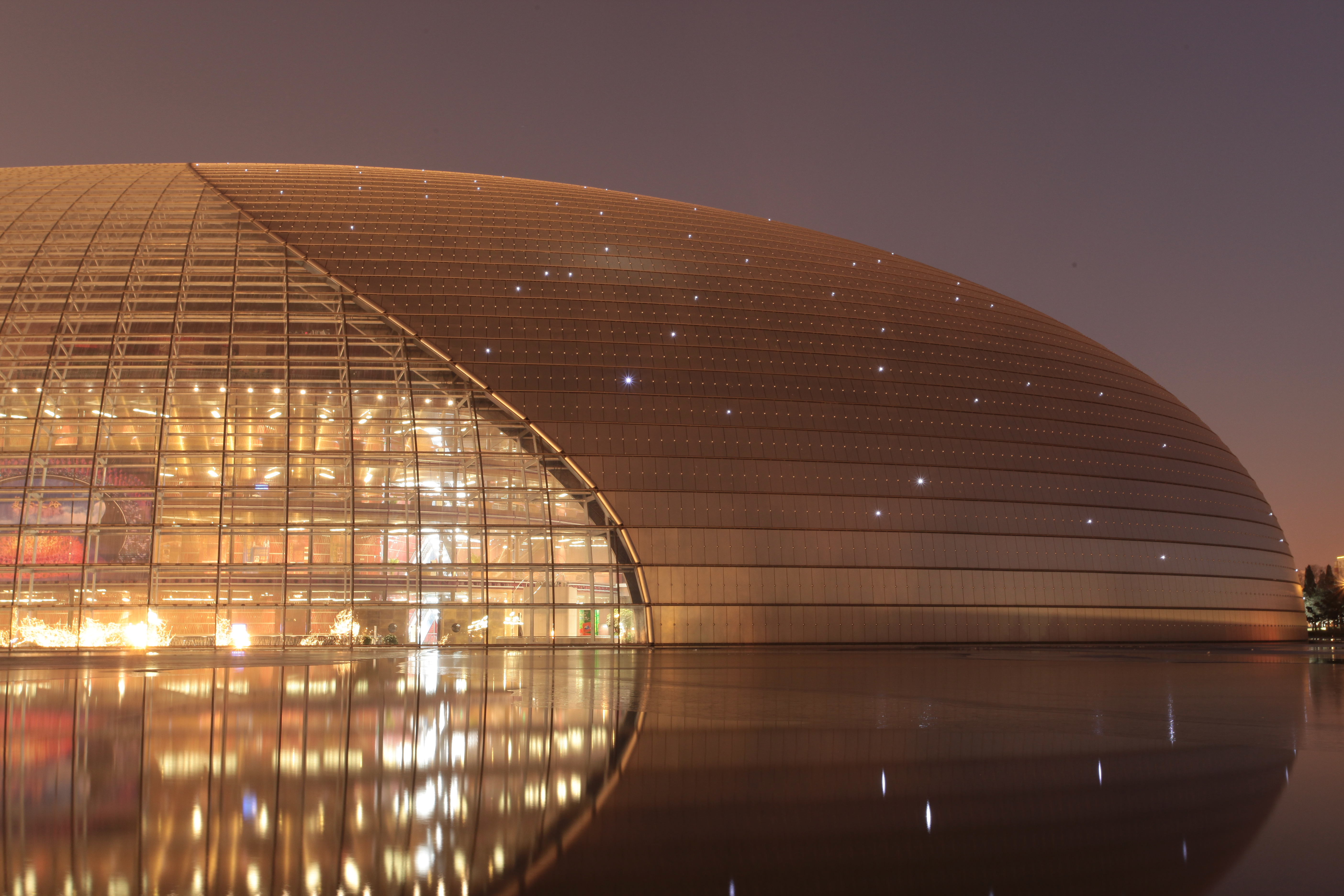 The Egg